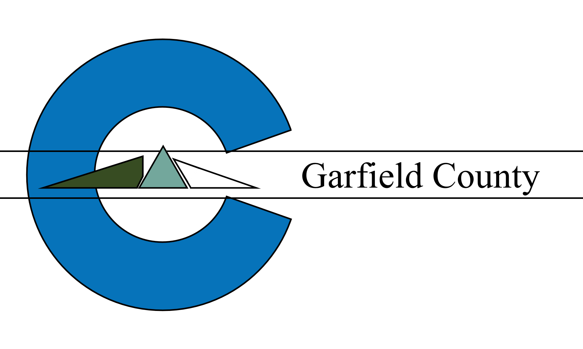 Flag of Garfield County, Colorado